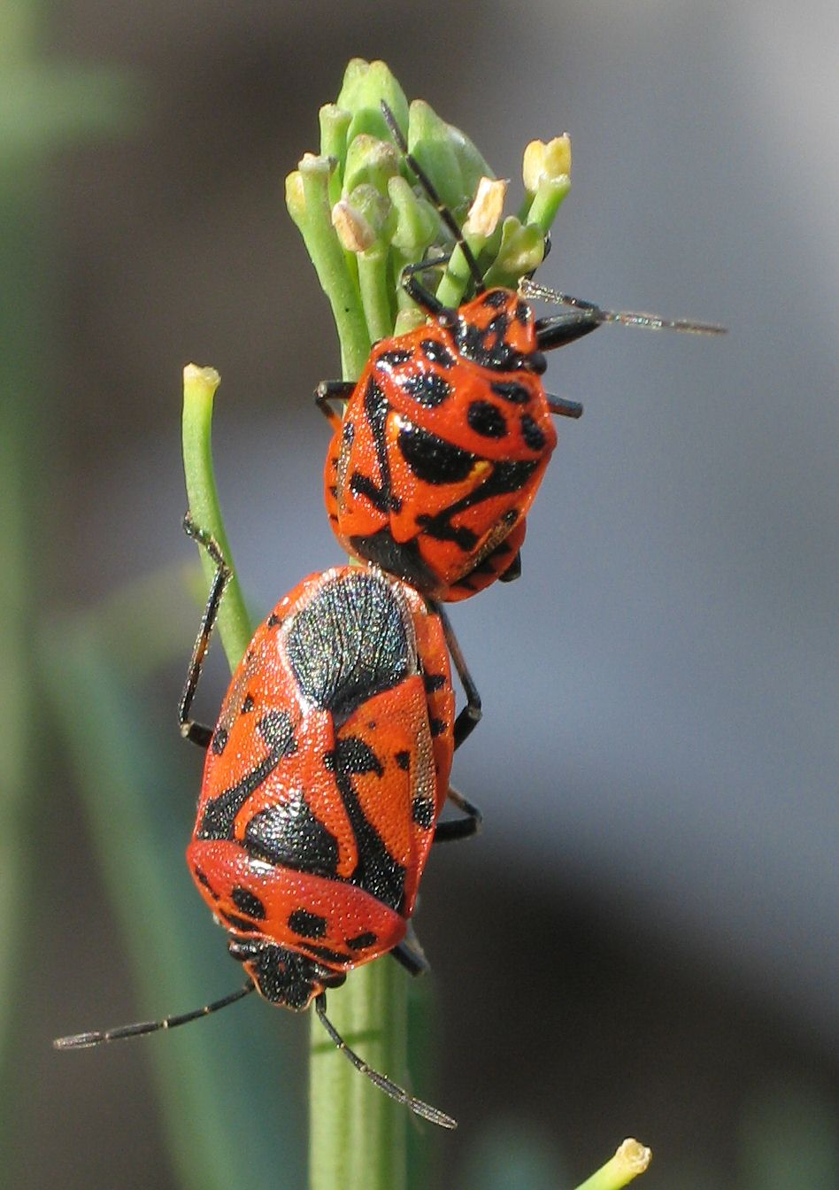 Eurydema ornata from Darmstadt (Germany)